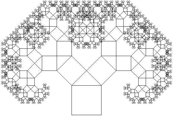 Classic Pythagoras tree